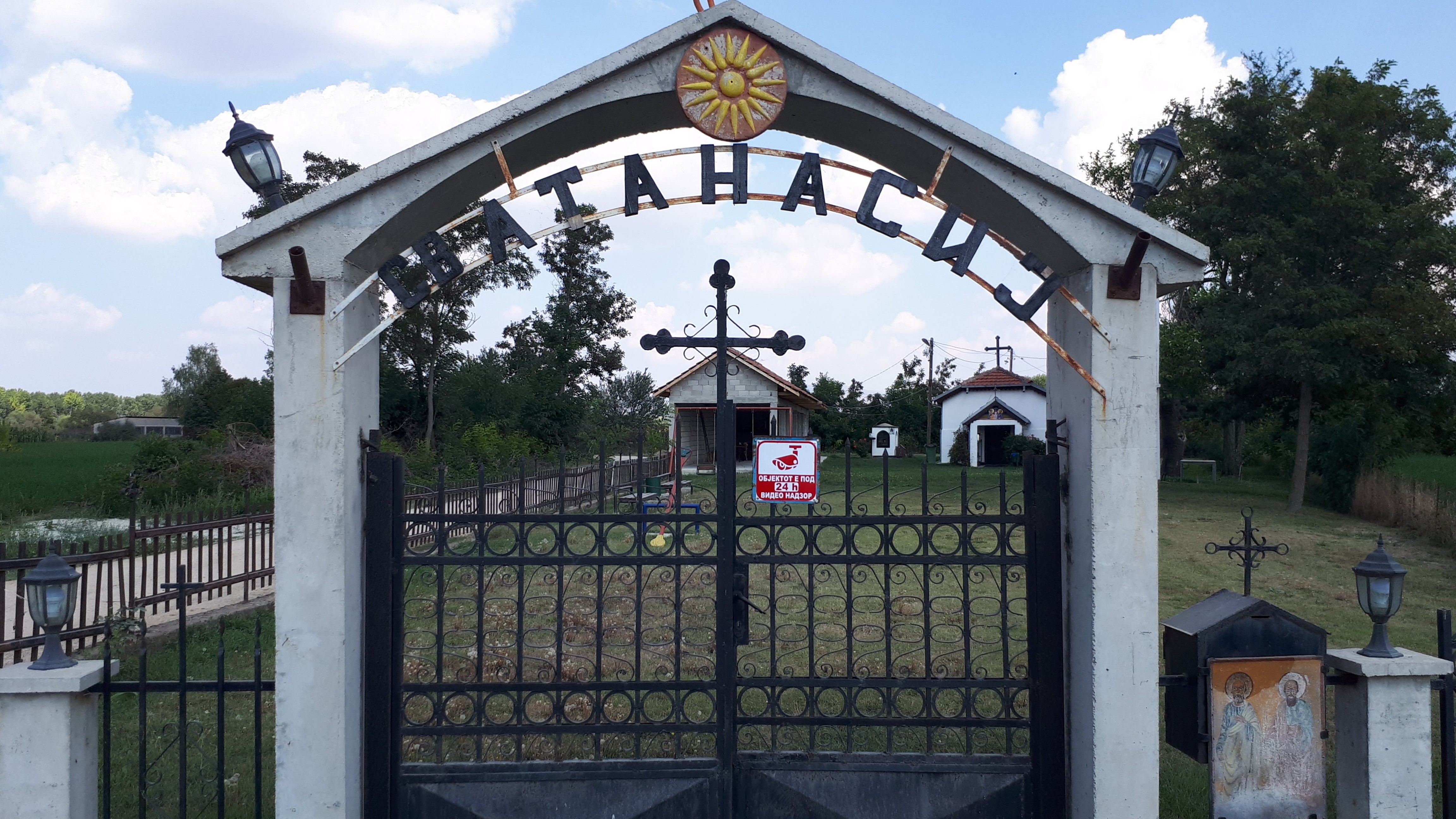 View of the Saint Athanasius Church in the village Žabeni